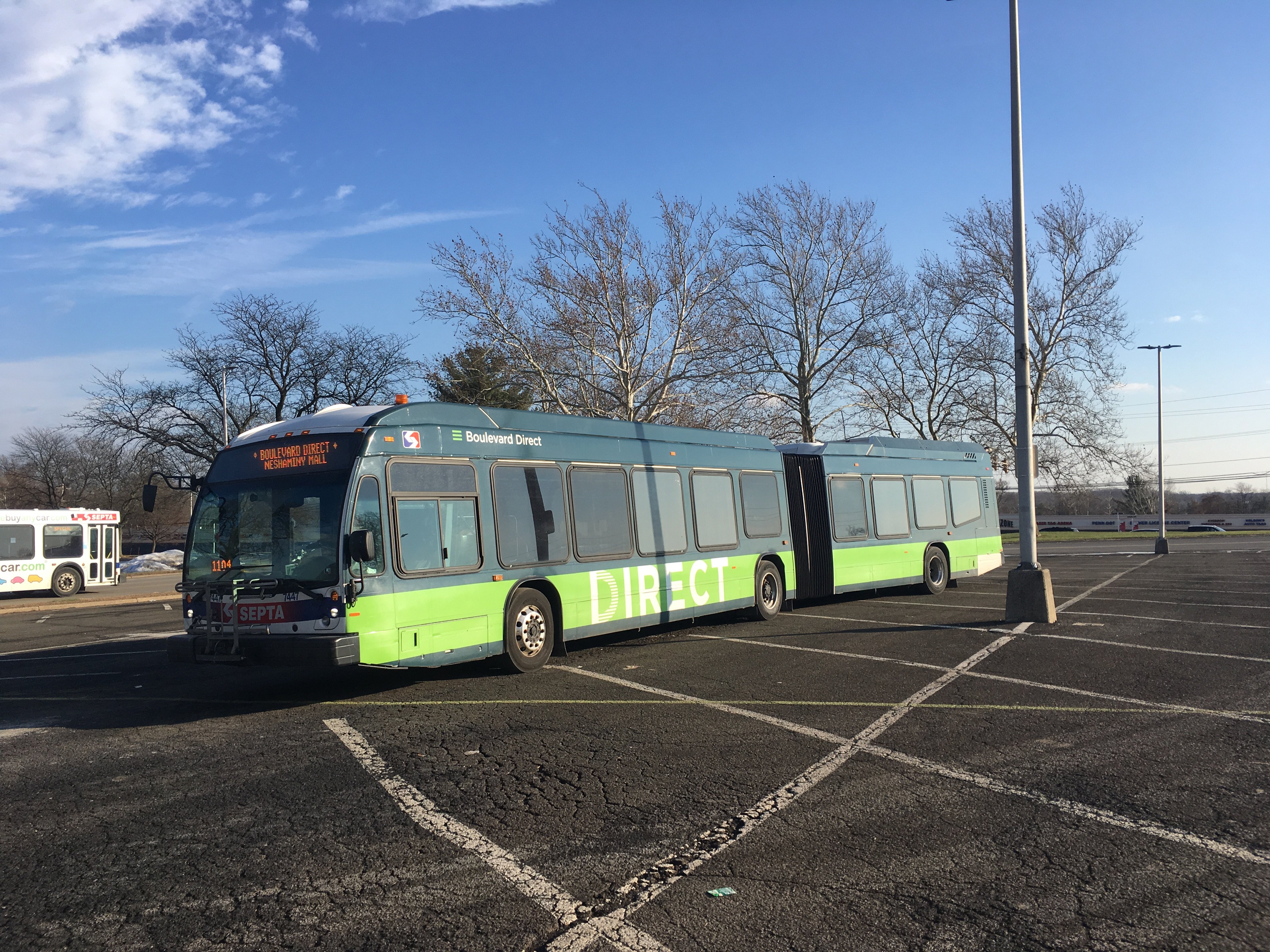 SEPTA NovaBus LFS Articulated #7447 on the Boulevard Direct route idles during a layover at the Neshaminy Mall in Bensalem Township, Pennsylvania